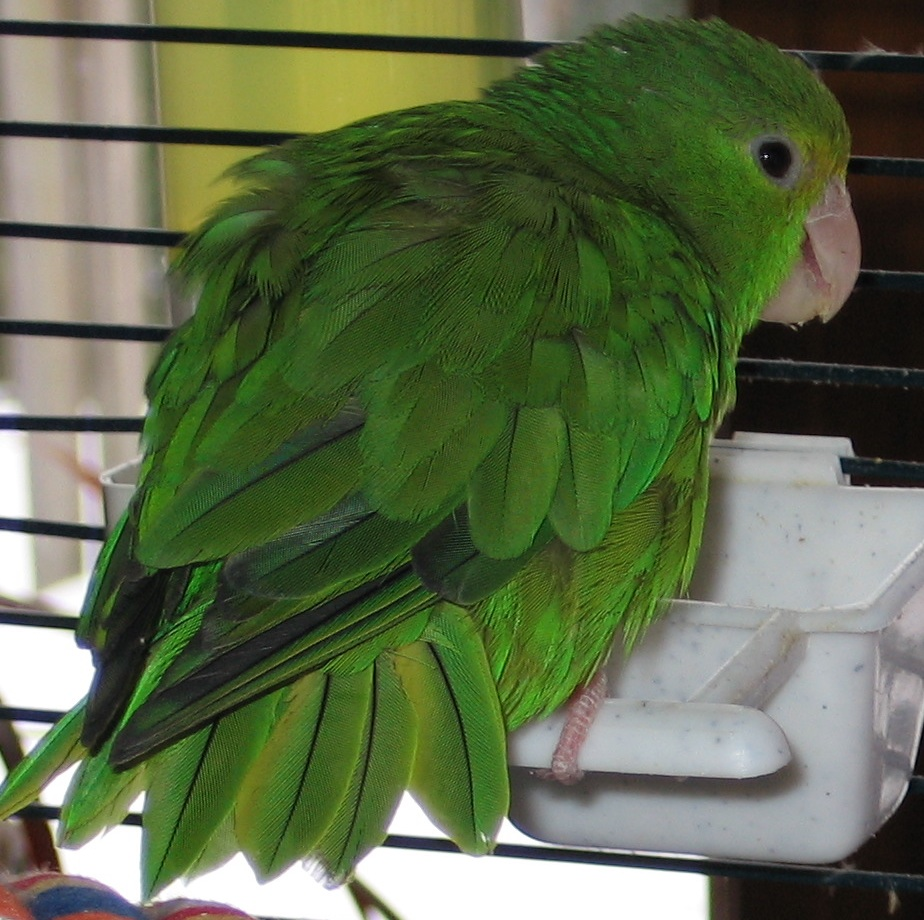 photograph of pet Green-rumped Parrotlet (Forpus passerinus)